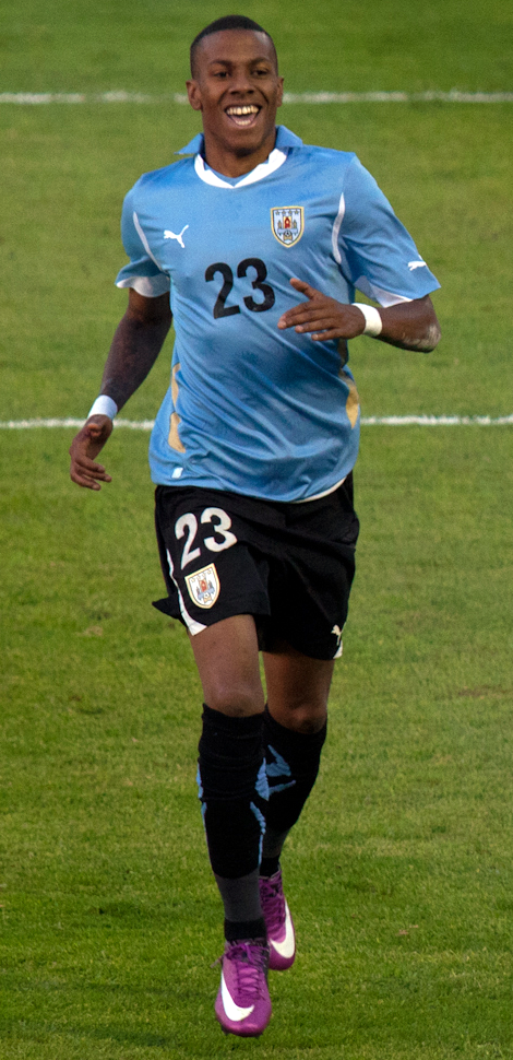 Uruguay football player, Abel Hernández, during a friendly game against the Netherlands